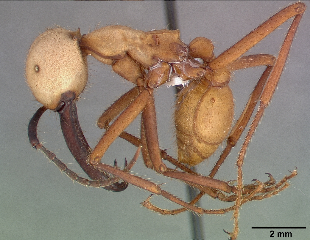 Profile view of ant Eciton burchellii specimen casent0009218.